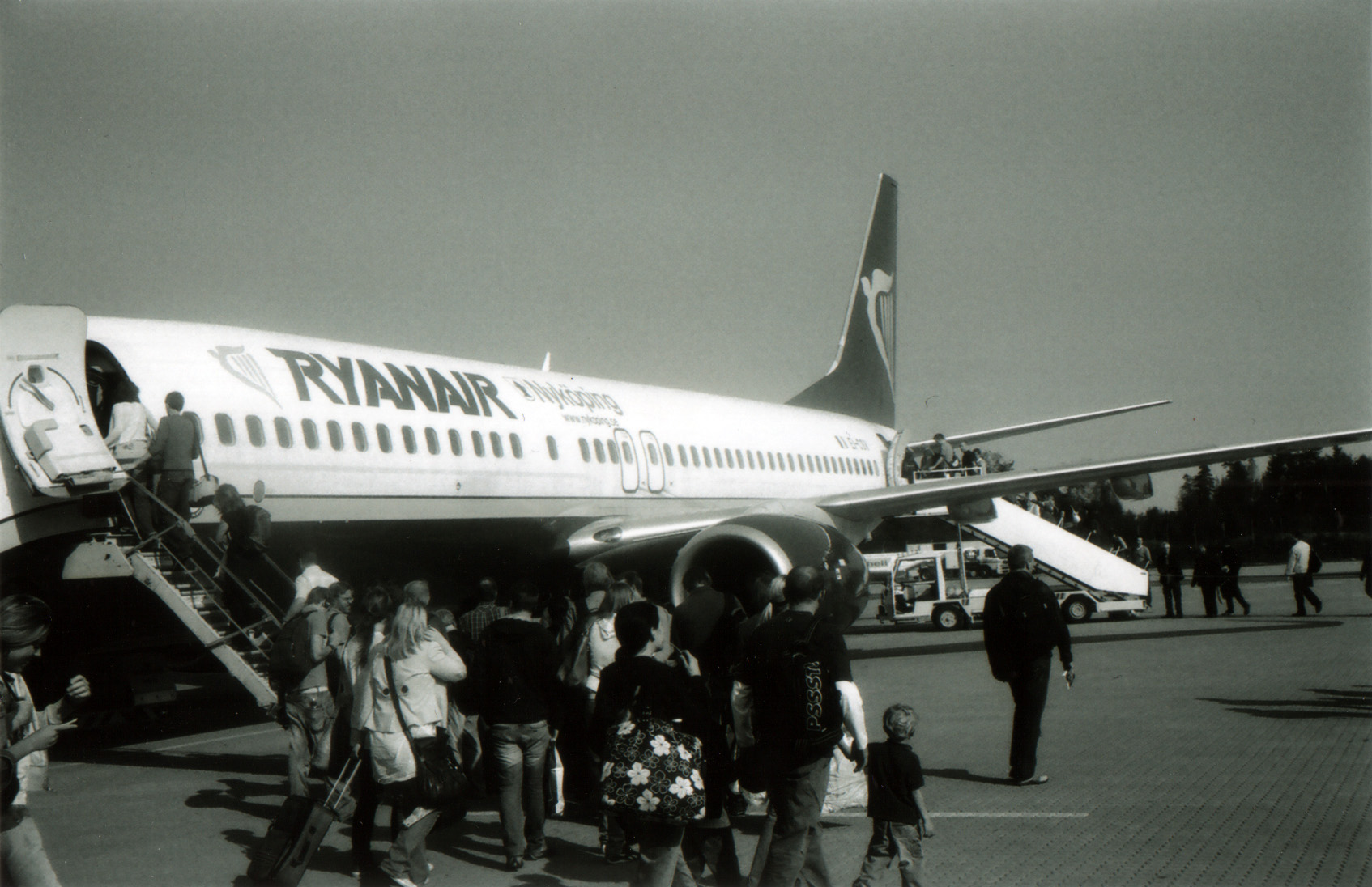 Passengers boarding a Ryanair 737-800 at Sandefjord Airport, Torp in Norway.